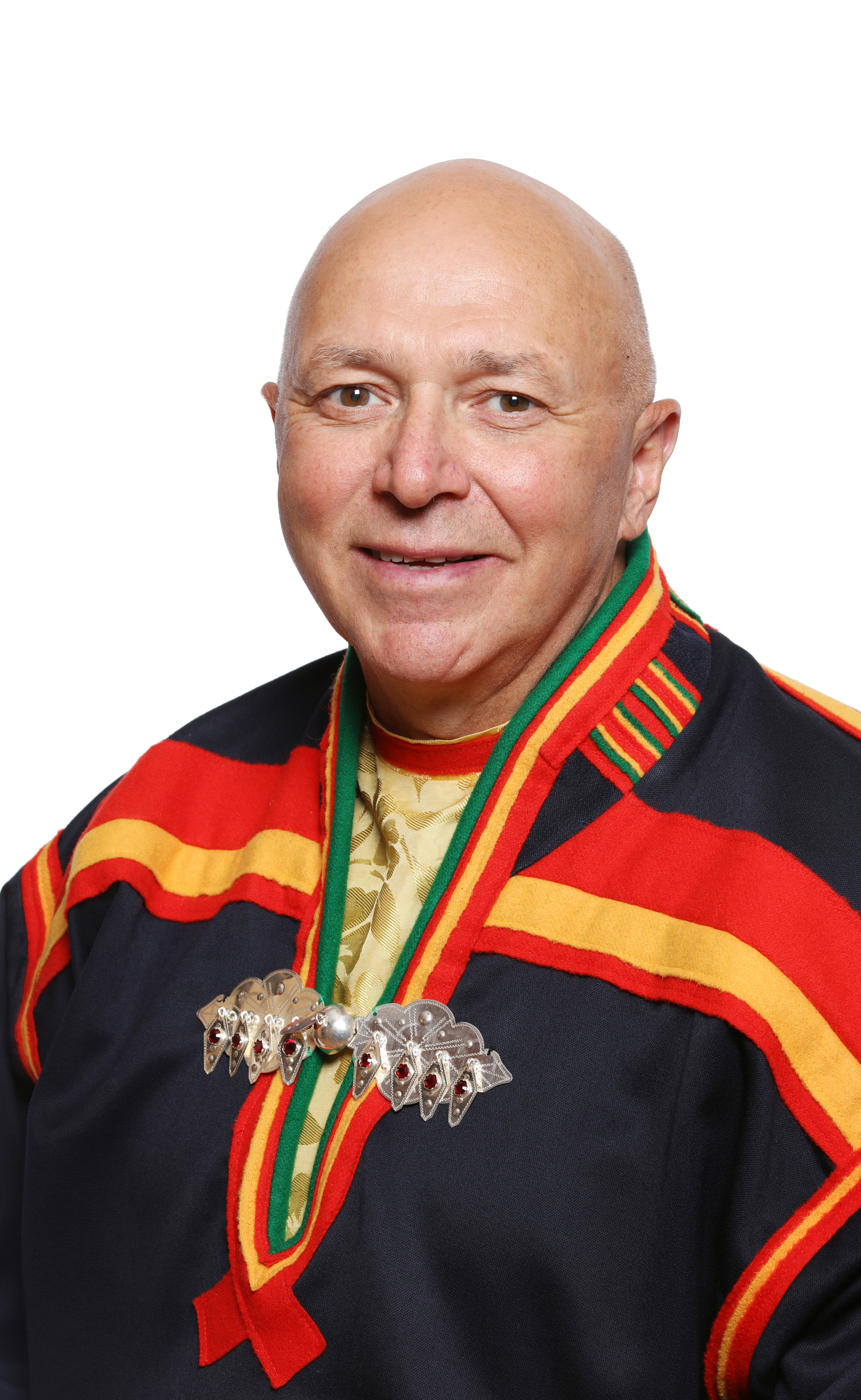 Inga, Arild P. (Foto: Kenneth Hætta)